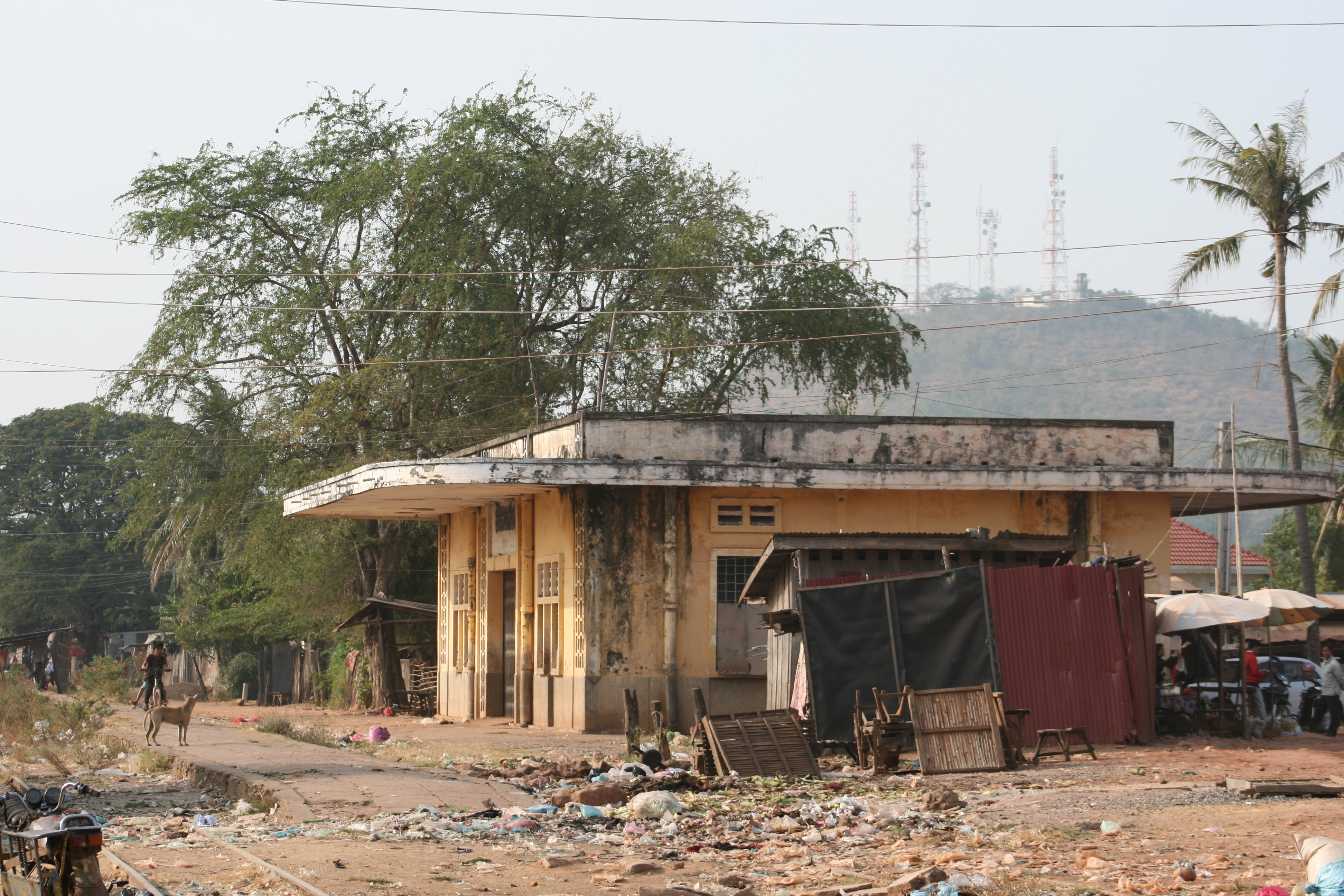 A view of Sisophon's railway station with Phnom Bak and the lookout tower in the background